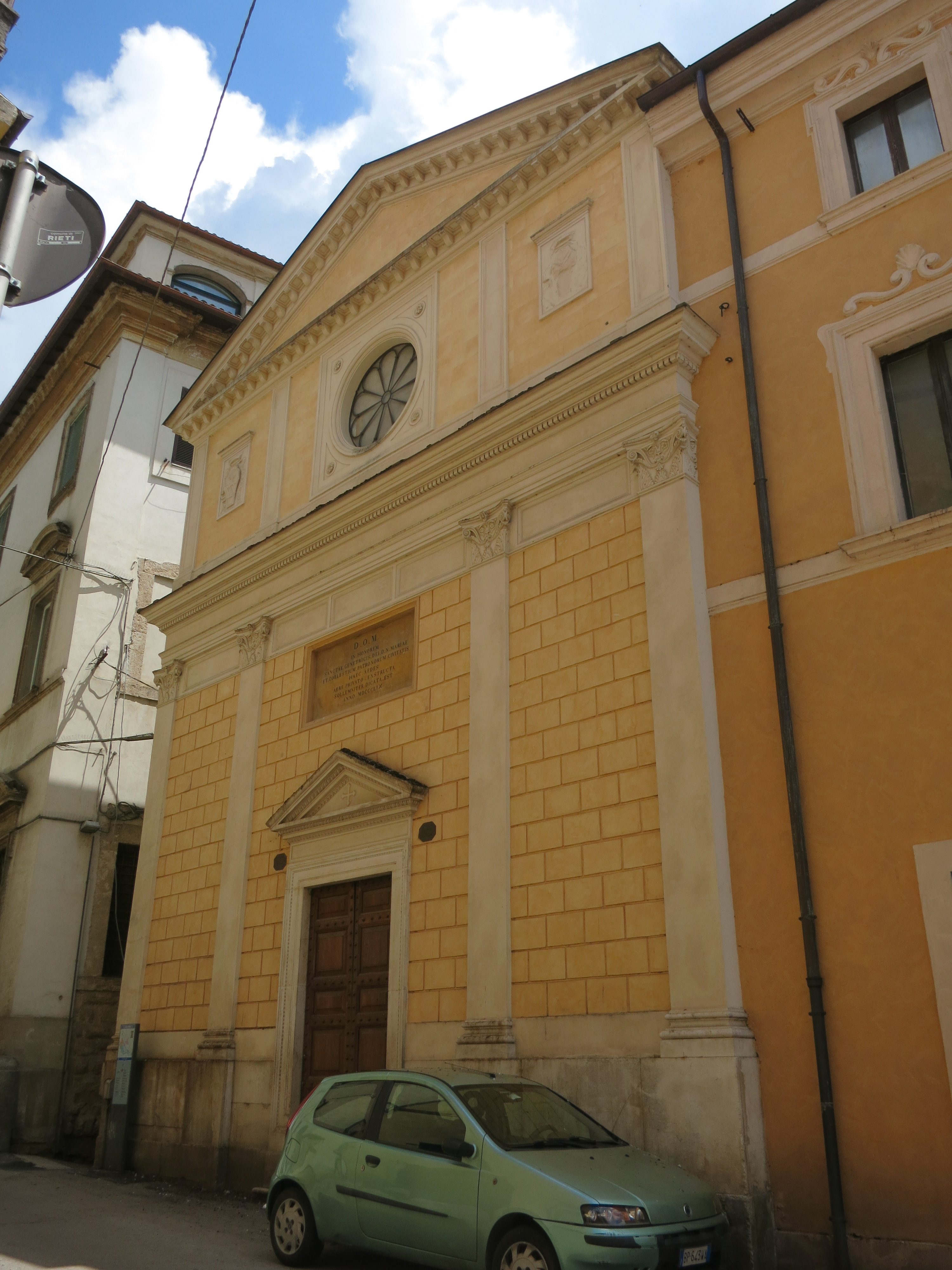 Church of Cerroni - Vincenti Mareri hospice, Rieti (Lazio, Italy)